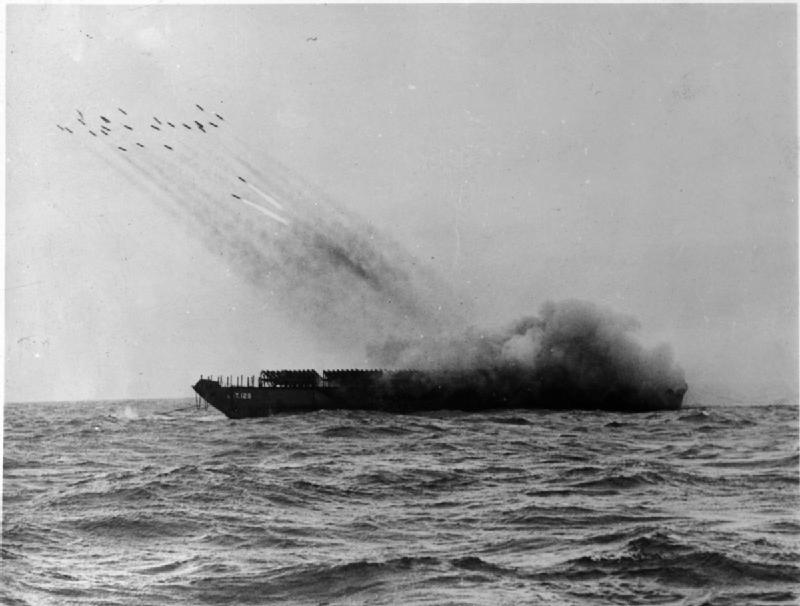 IWM caption :LC(R) T125 launches a salvo of rockets at sea.